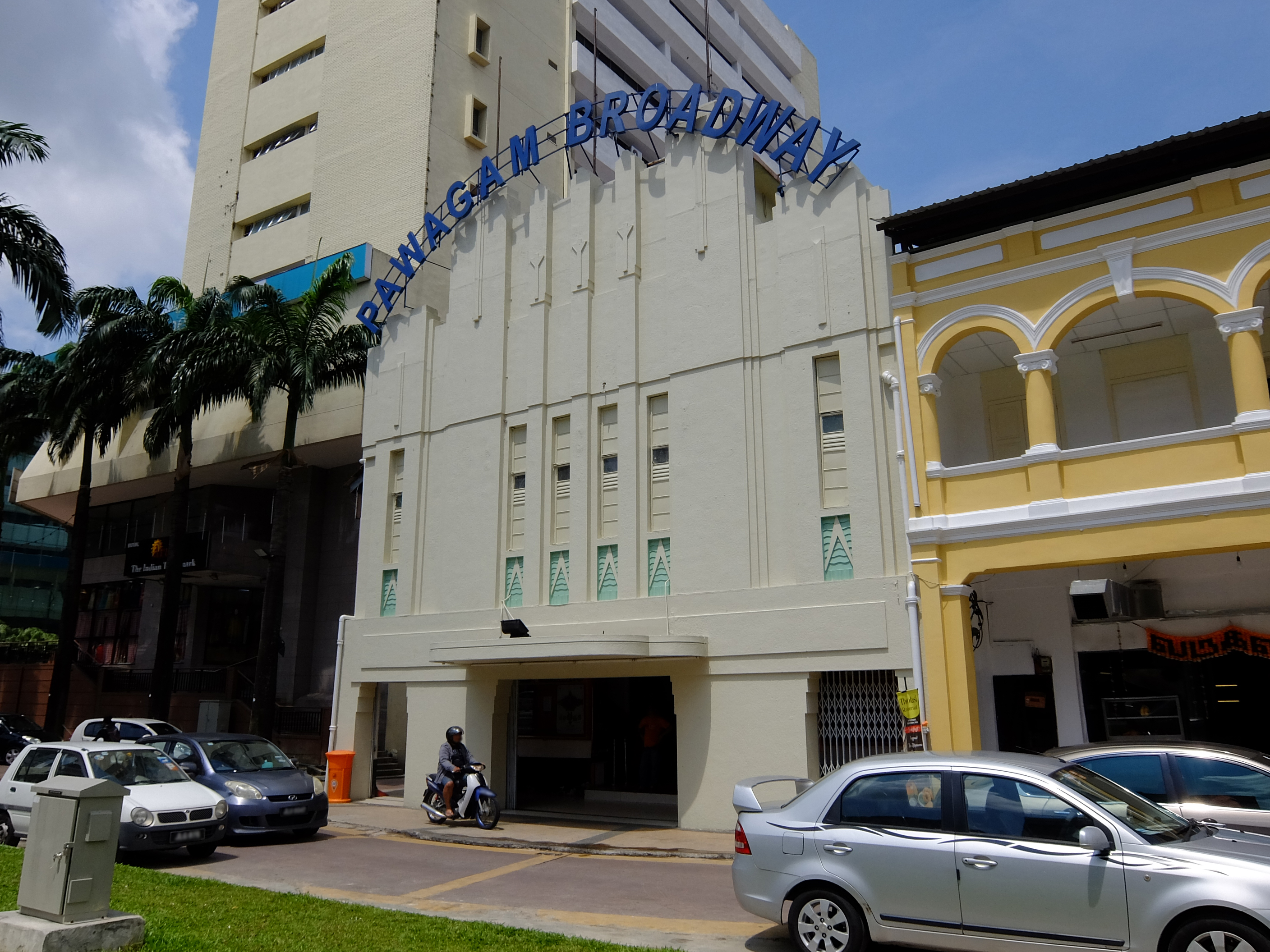 Broadway Theater, Johor Bahru, Johor, Malaysia